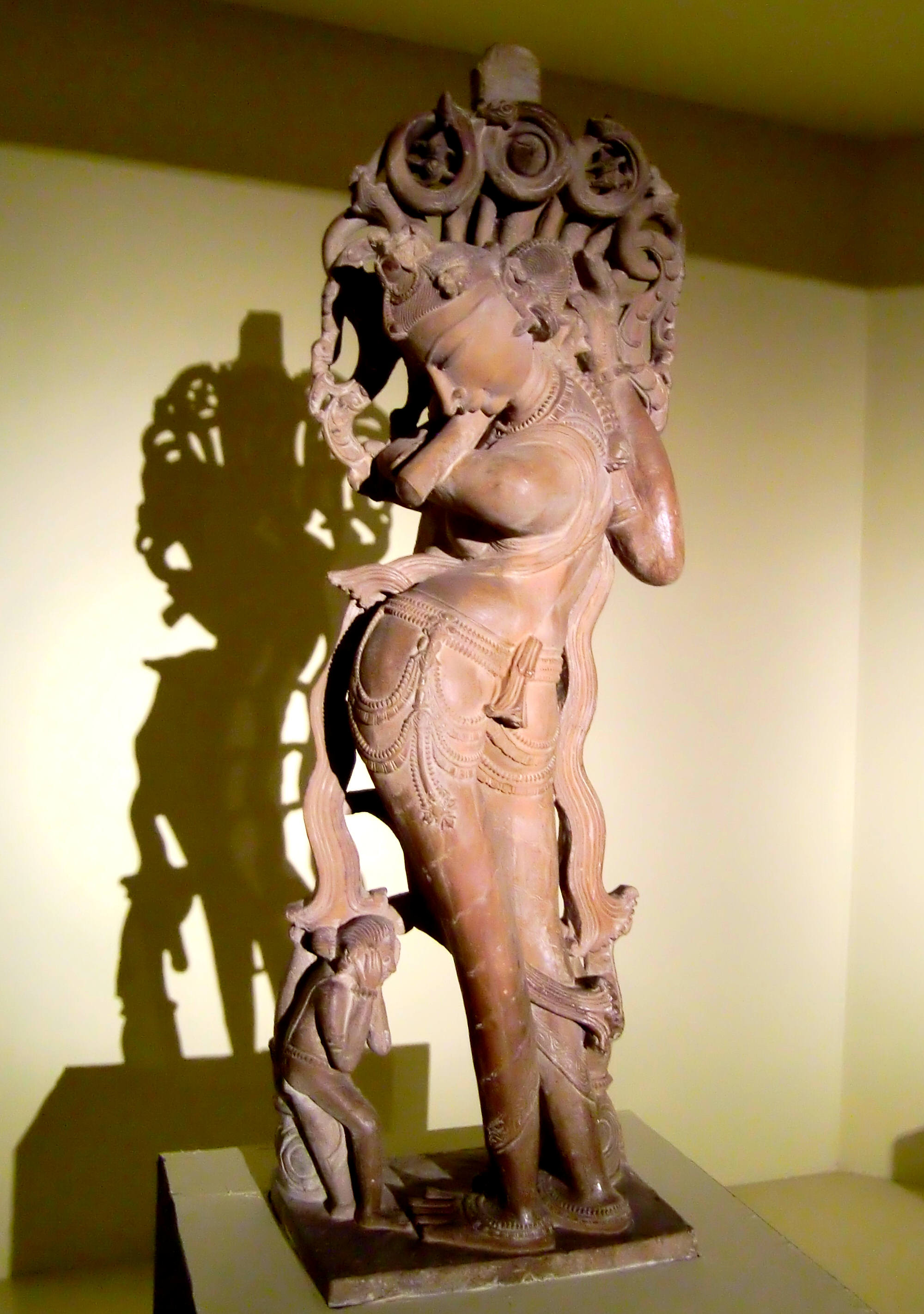 Nymph blow flute, Archaeological Museum Khajuraho １１th-１２th century